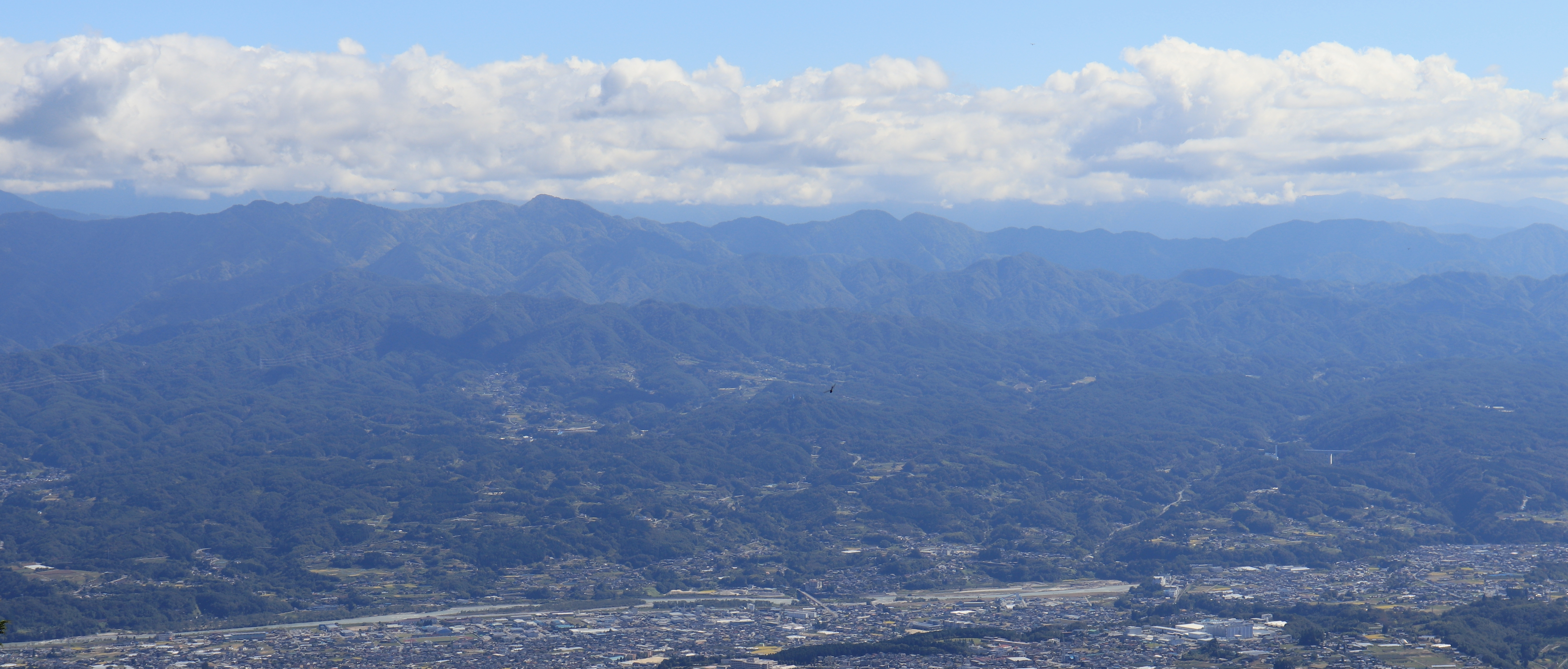 Tenryu River, Shimohisakata and Ina Mountains seen form Mount Kazakoshi (Kiso Mountains) in Iida, Nagano Precture, Japan.